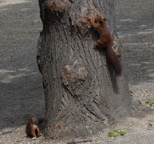 The Eurasian Red Squirrel (Sciurus vulgaris) in the garden of the Schönbrunn Palace, Vienna, Austria